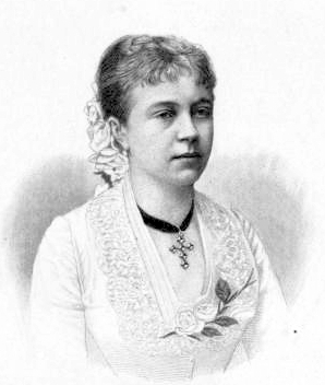 Austrian opera singer Rosa Papier (1859-1932) by August Weger (1823-1892).